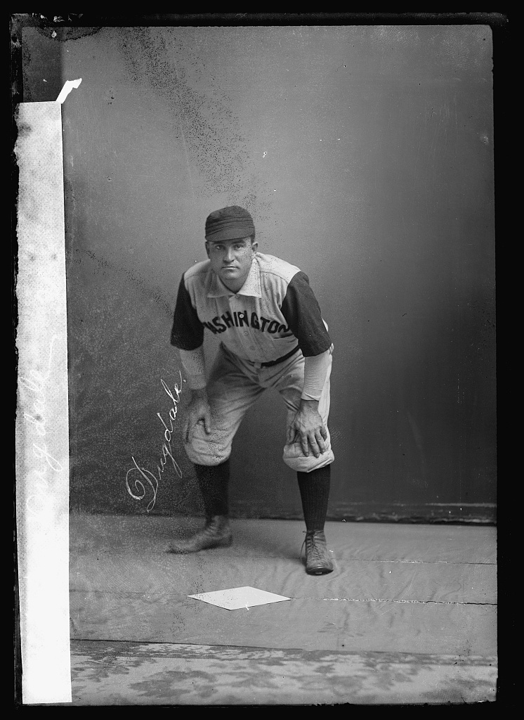 Dan Dugdale Catcher for the Washington Nationals photographed by C. M. Bell Studio